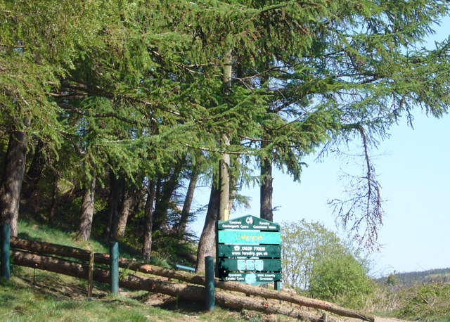 Blaenclydach, Rhondda Cynon Taff, Wales